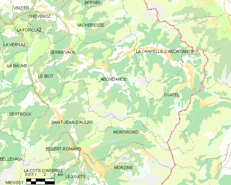 Map of French municipality Abondance